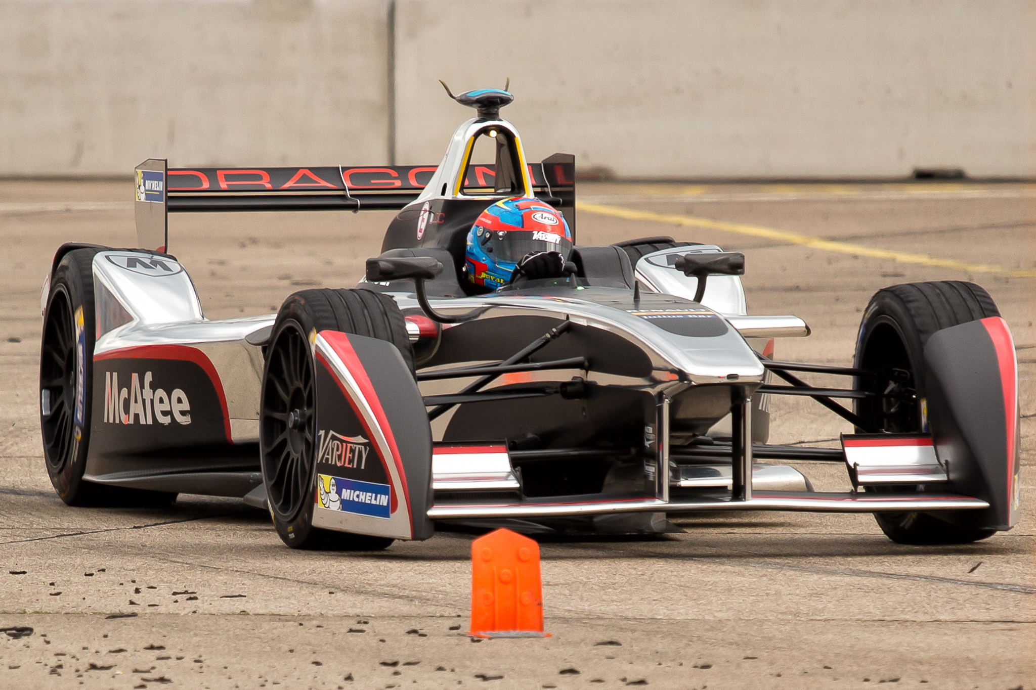 Loïc Duval during the actual formula E race in Berlin Tempelhof, 2015.